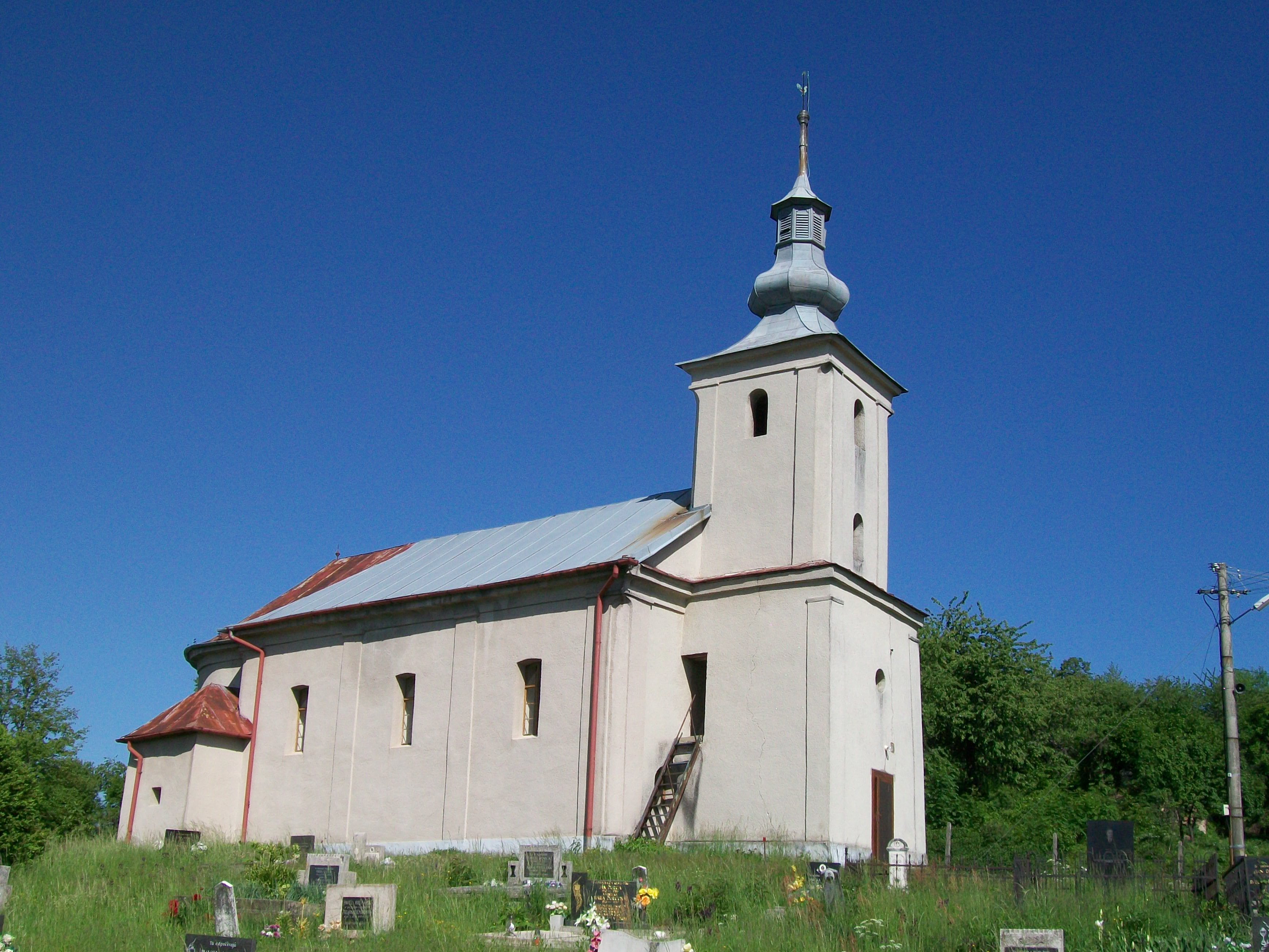 Evangelical Church in Praha, built in 1856